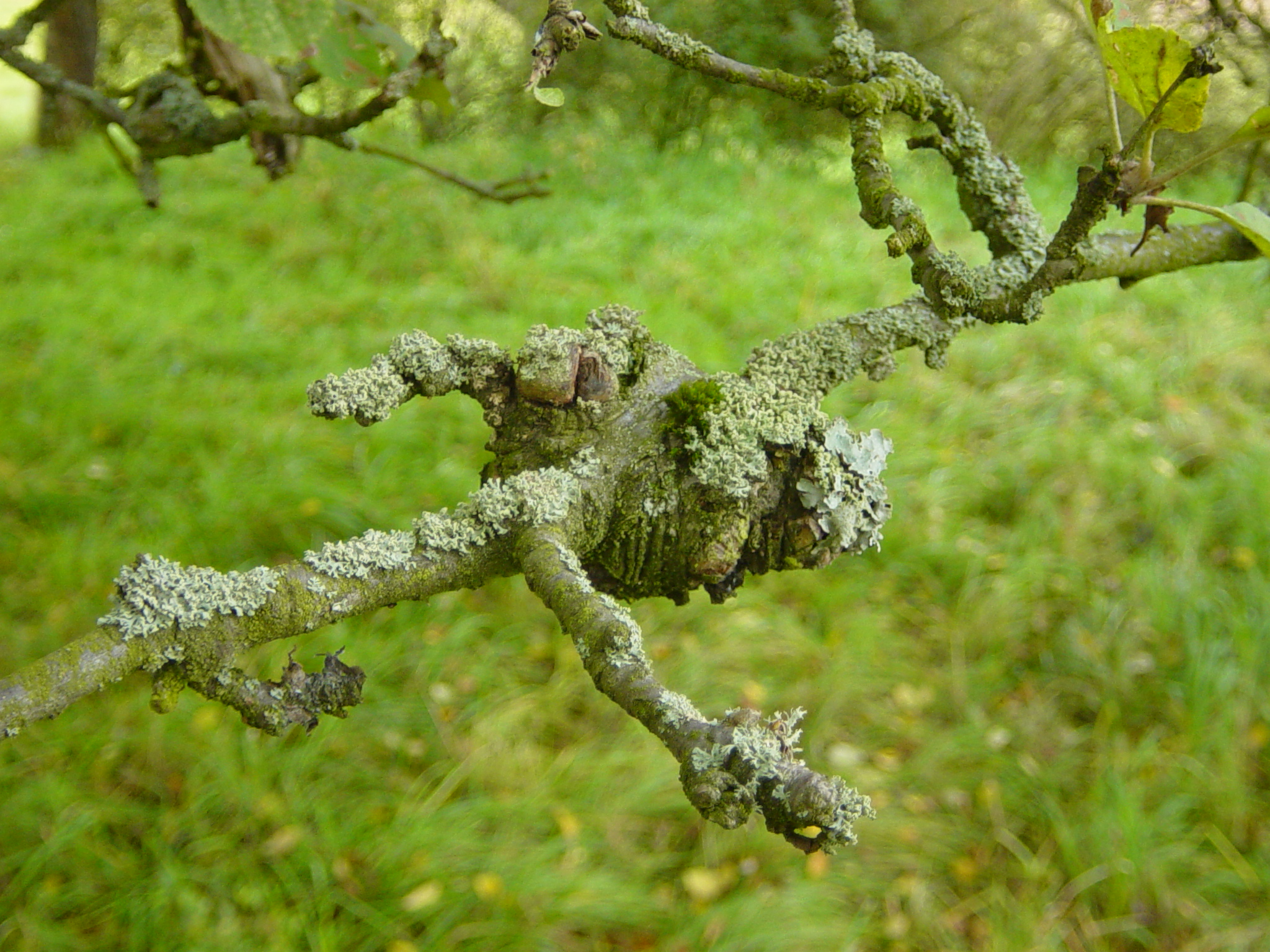 apple tree, branch(es) with canker